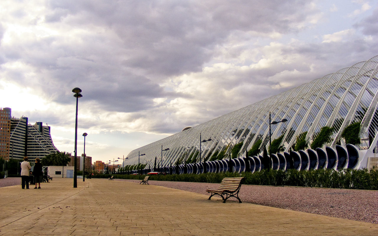 Valencia España